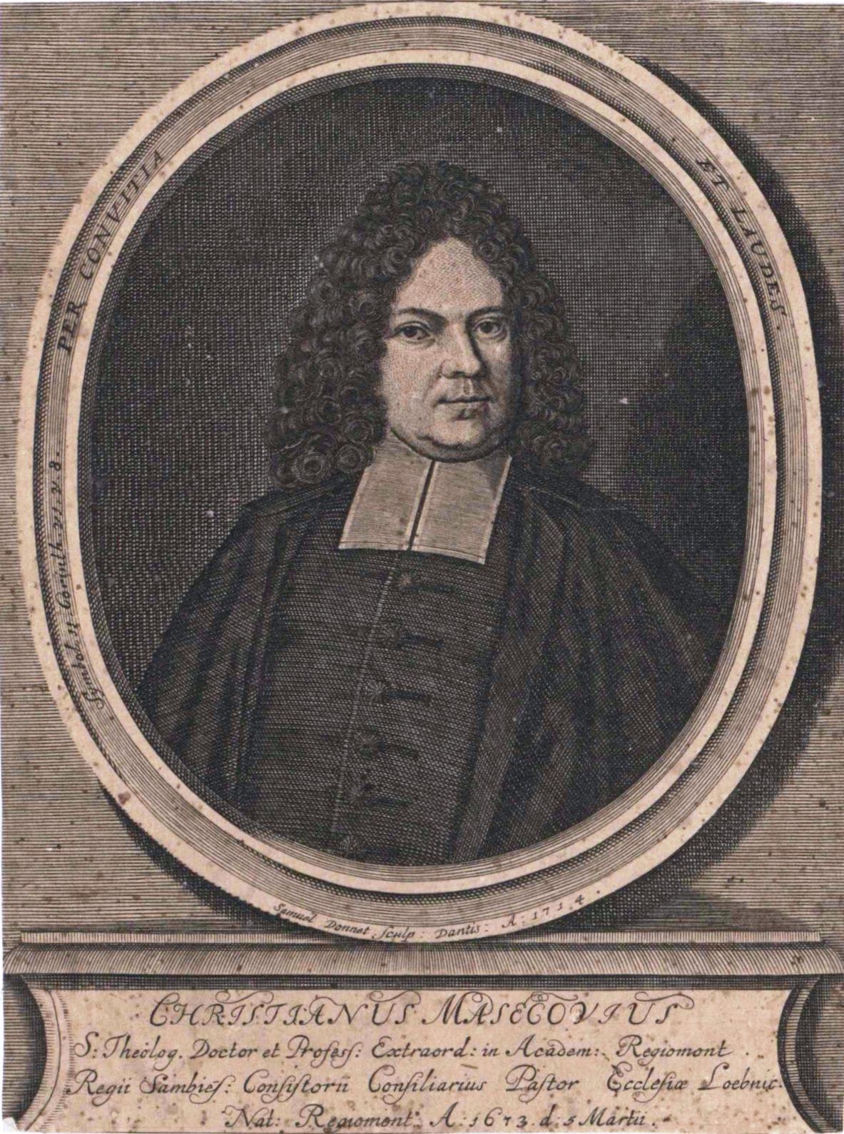 Christian Masecovius (1673–1732)